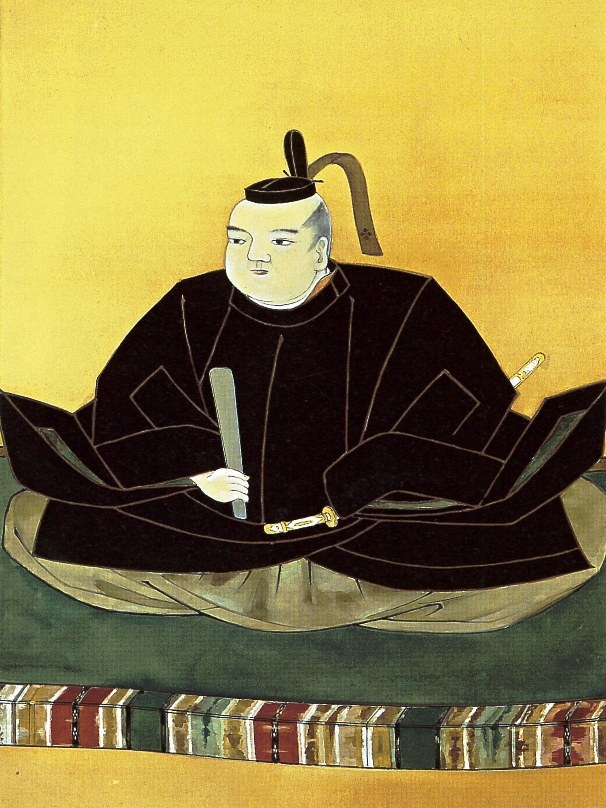 The portrait of Kyogoku Takatsugu who is Daimyo (feudal lord) of Omi Province and Wakasa Province during the late-Sengoku Period of Japan's history.